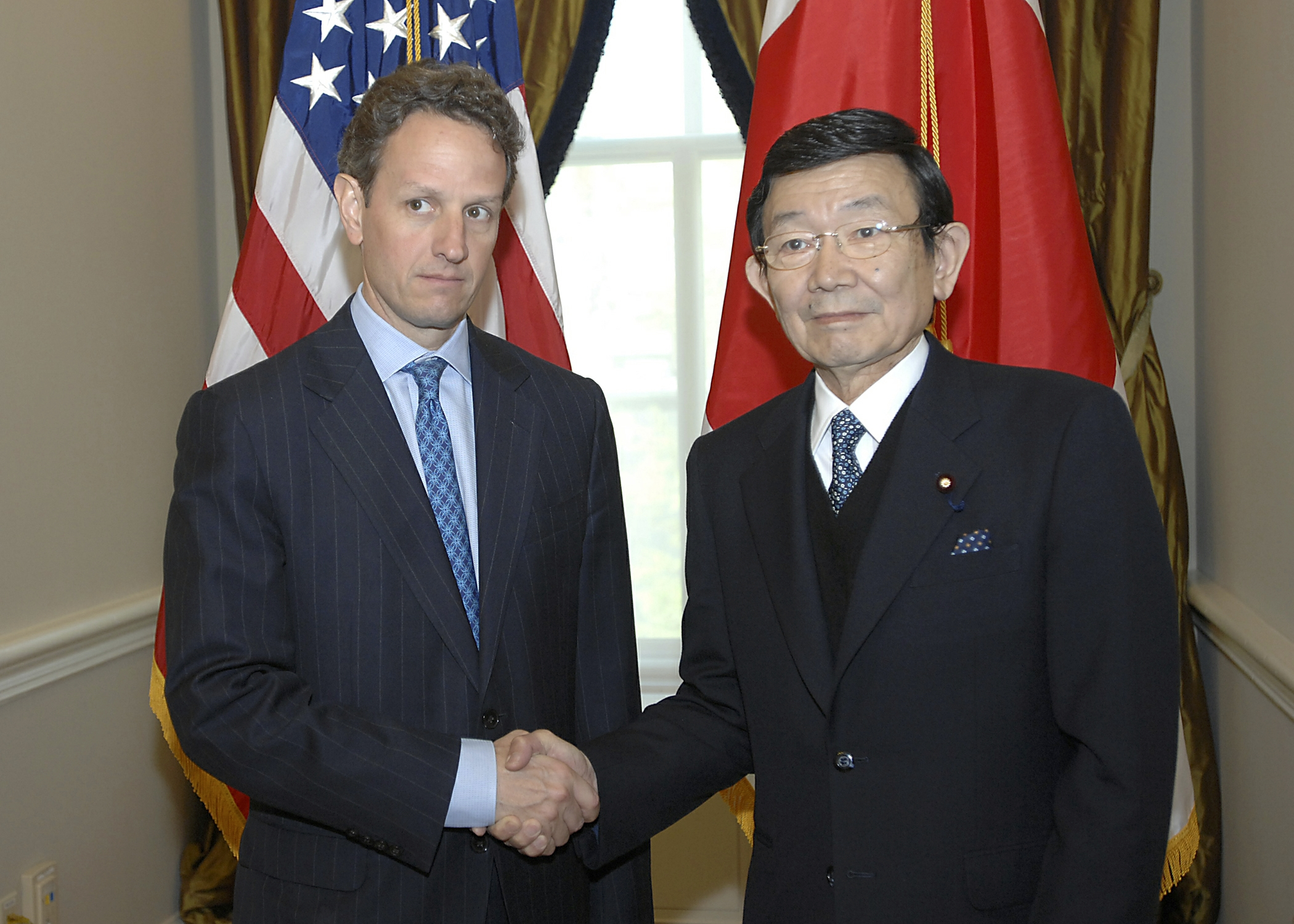 Kaoru Yosano, Minister of Finance, met Timothy Geithner, Secretary of the Treasury, at the Department of the Treasury in Washington, D.C. on April 24, 2009.